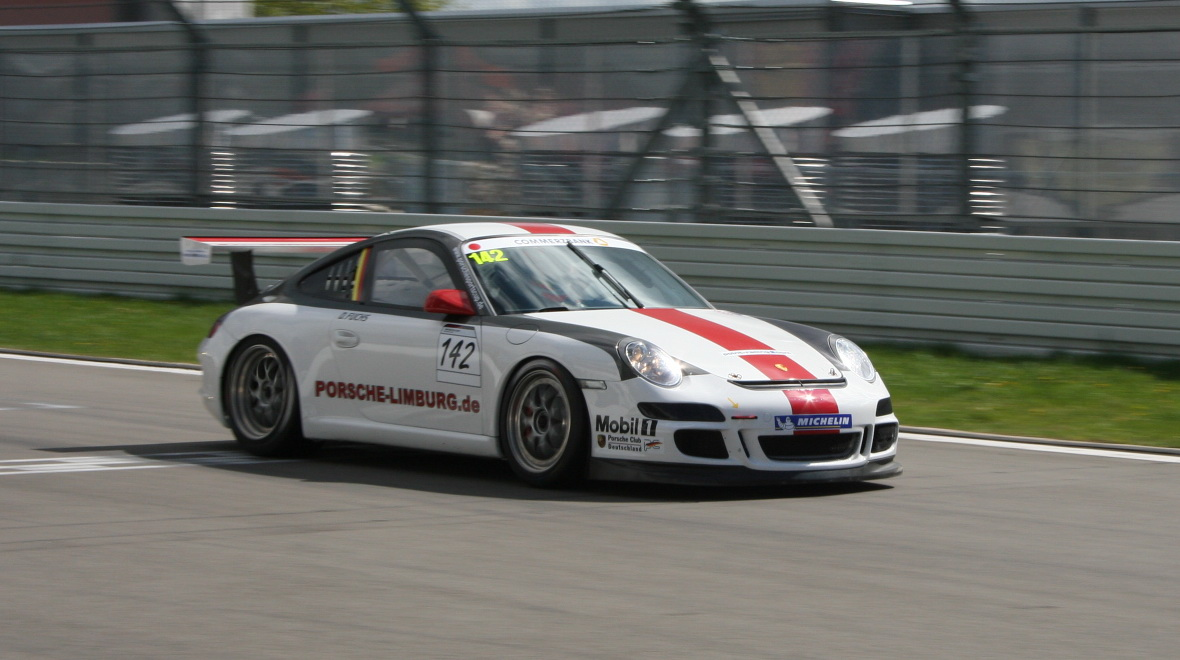 Porsche Sports Cup Germany at Nürburgring 2013 - dry track